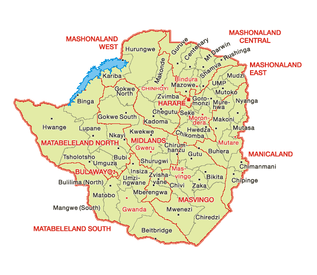 Map of Zimbabwe, its districts and major cities.